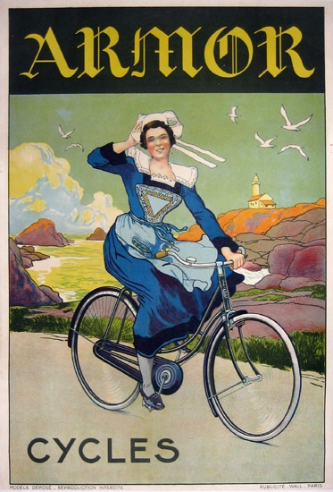 Advertising poster for Cycles Armor.